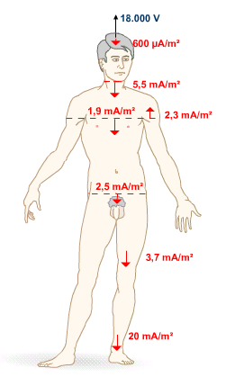 Electromagnetism: Induced current (current density in mA/m², or μA/m²) in a man when exposed to a horizontal electric field with a strenth of 10 kV/m; based on perfect grounding of the feet.